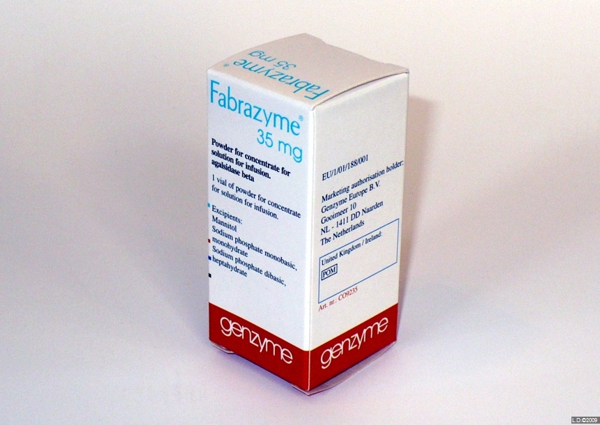 Fabrazyme (Agalsidase beta)35 mg powder for concentrate for solution for infusion